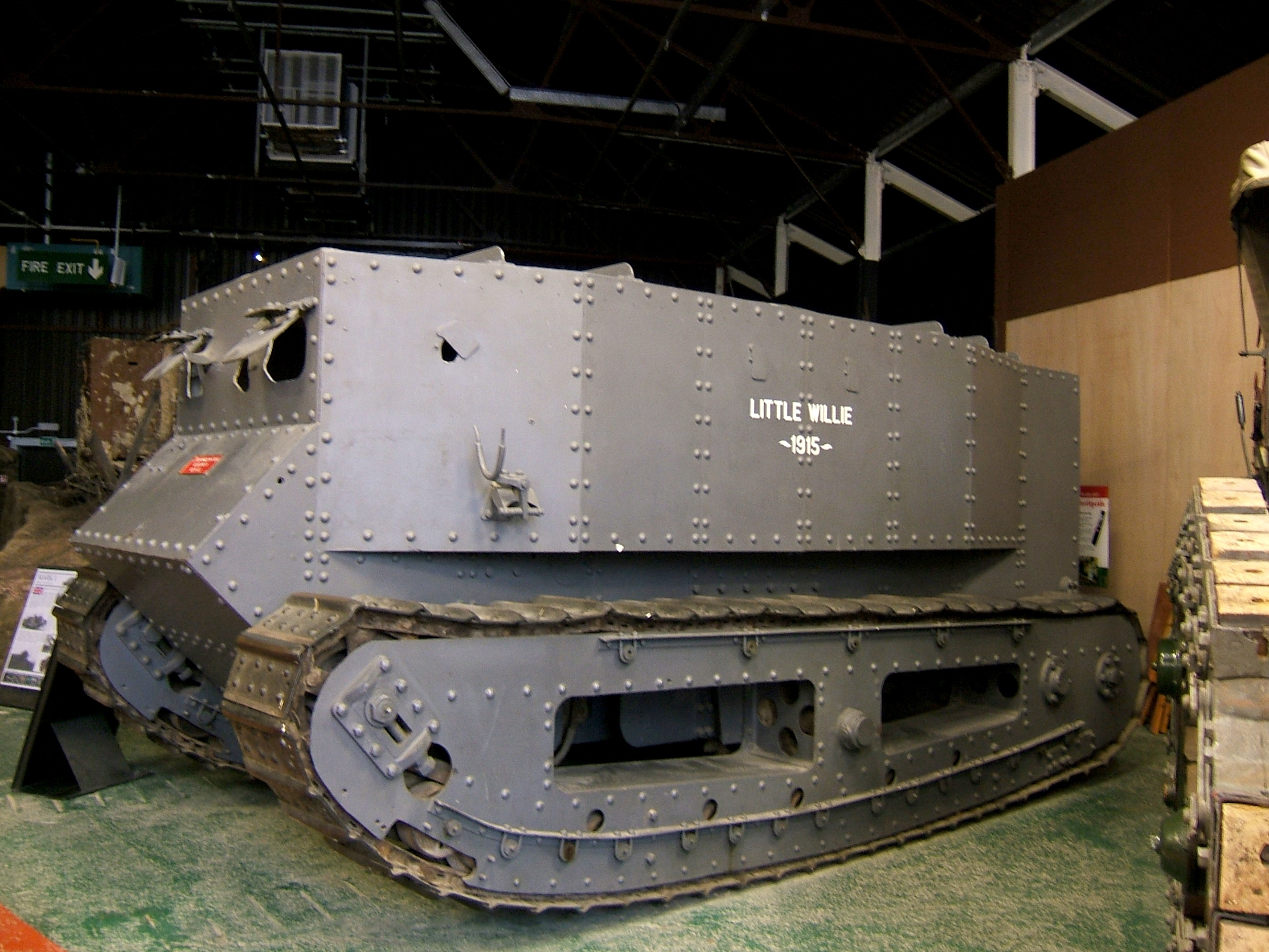 The first ever tank, and you can see why they got that name as it does look like a big water tank on tracks.Little Willie